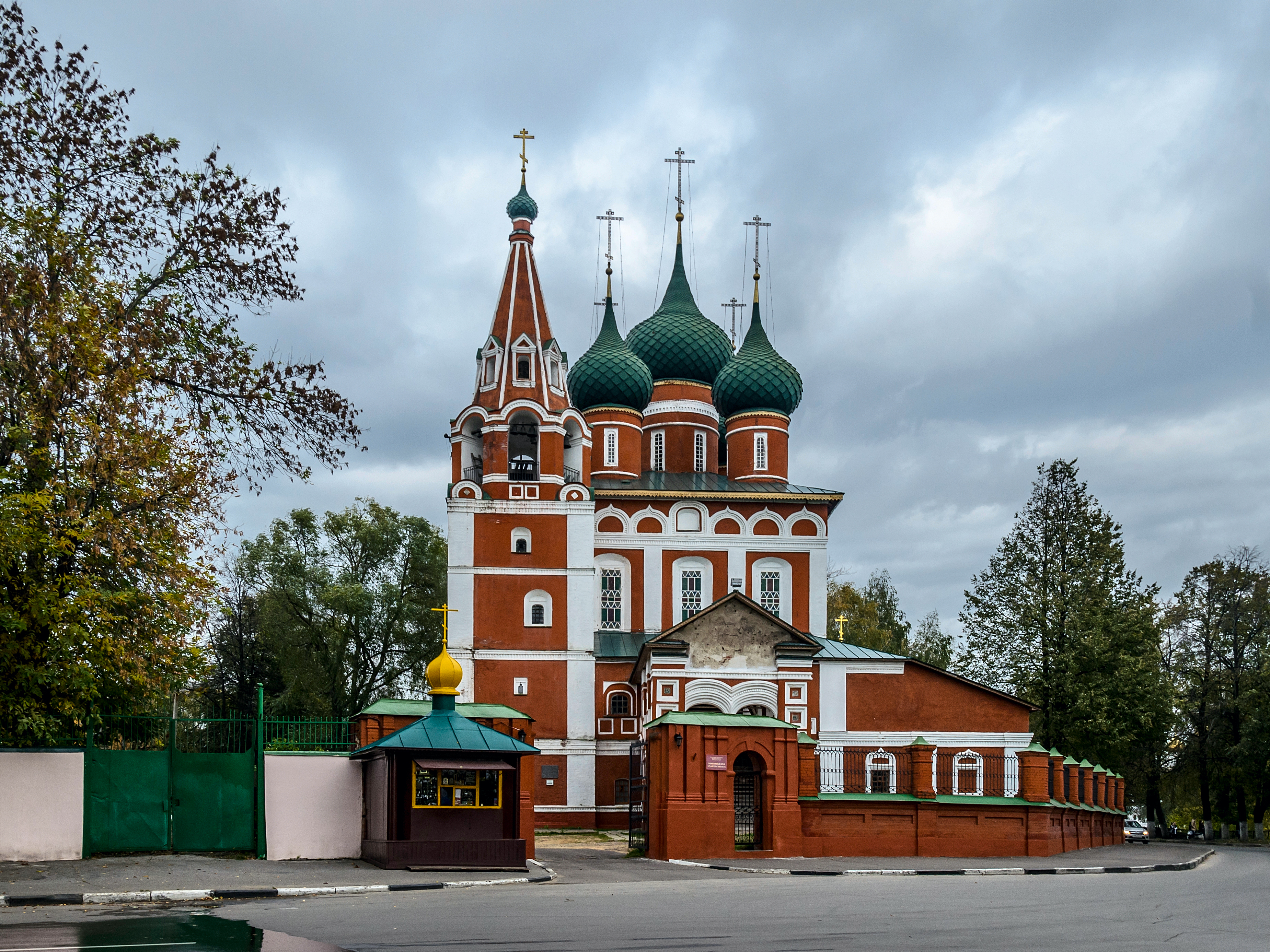 Saint Michael's Church in Yaroslavl